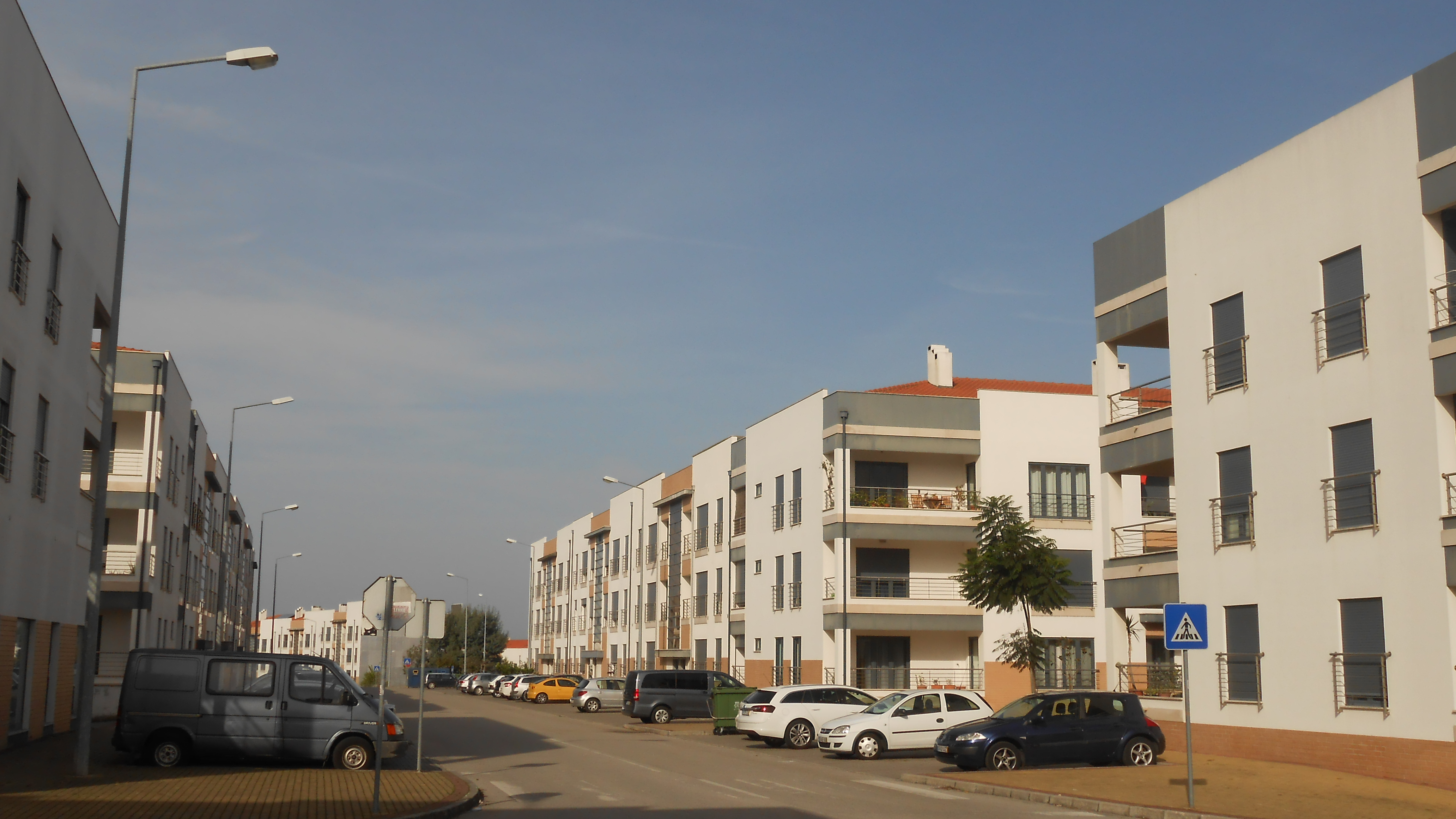 In the new part of in Pereira, a civil parish of the Montemor-o-Velho municipality in the Coimbra district.